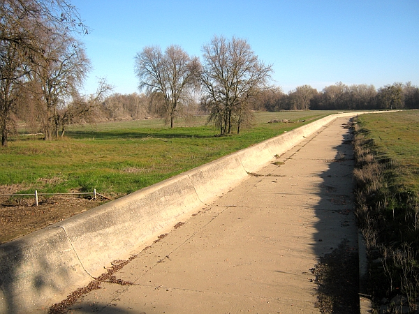 Fremont Weir is located in the Fremont Weir Wildlife Area — at the north end of the Yolo Bypass on the Sacramento River.